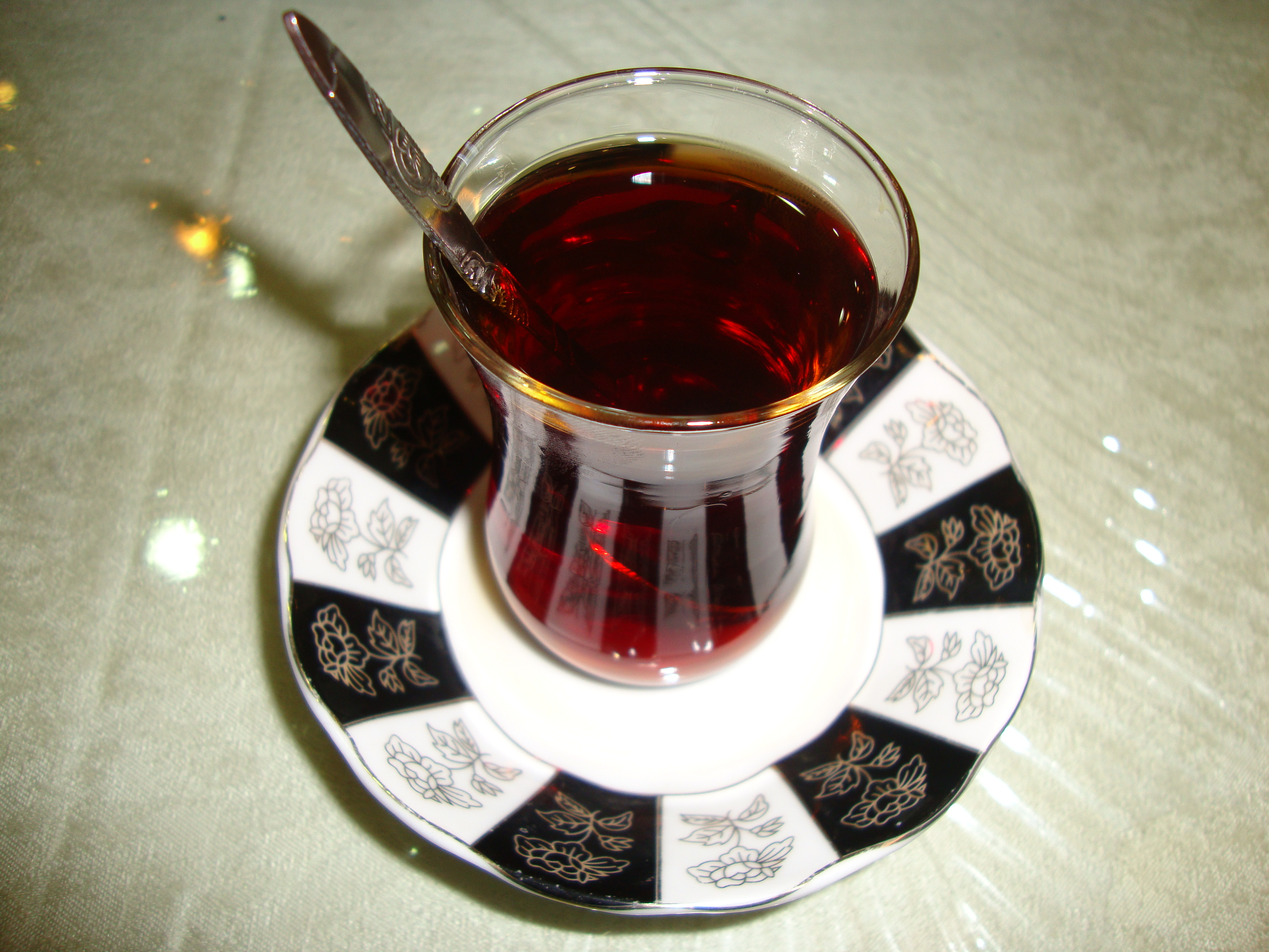 A Traditional Kurdish Glass of Tea